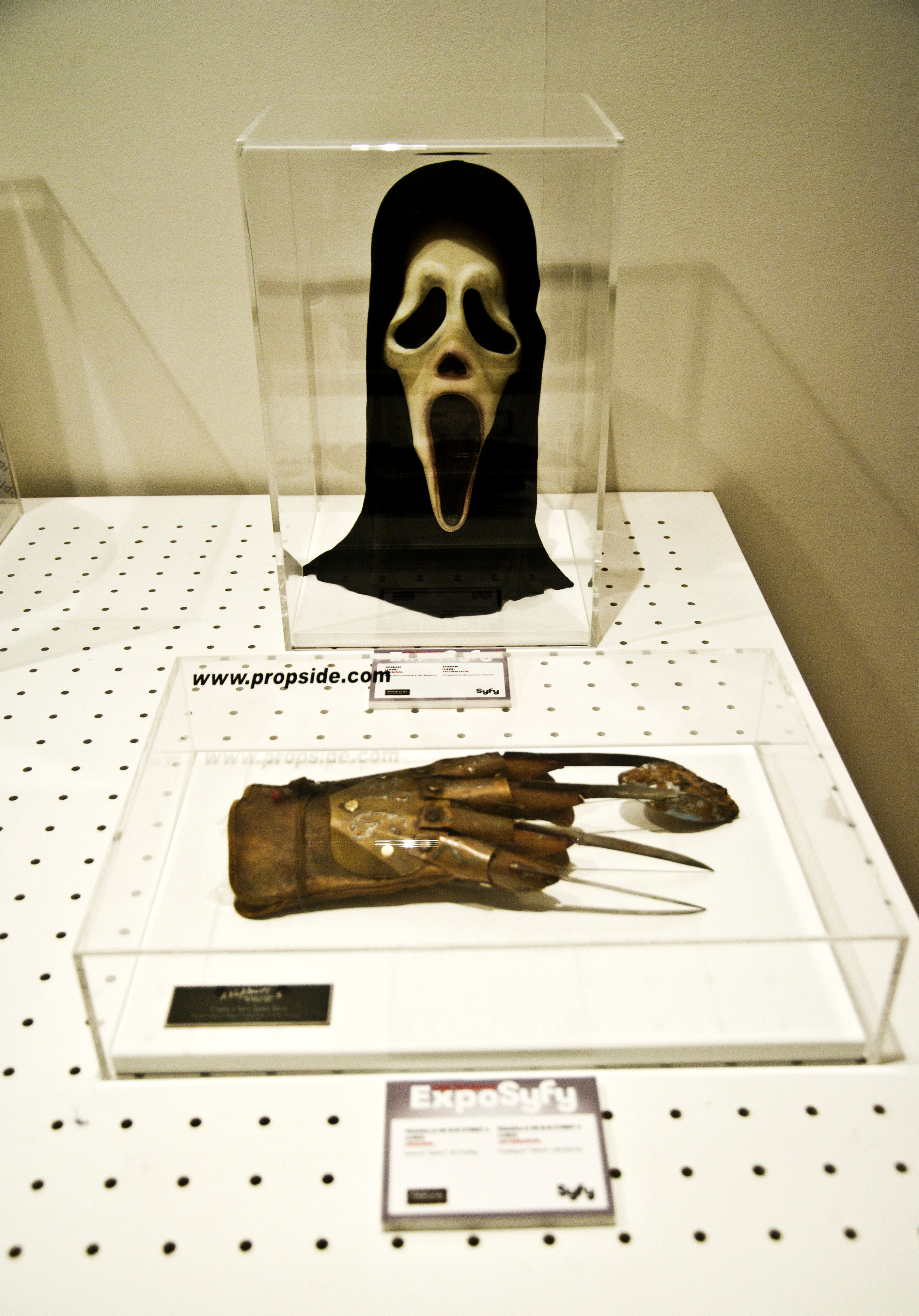 Film props displayed at ExpoSYFY, San Sebastián, Spain. On the background: original Ghostface mask from the 1996 film Scream. source On the background: original Freddy Krueger spoon glove from the 1989 film A Nightmare on Elm Street 5: The Dream Child. source